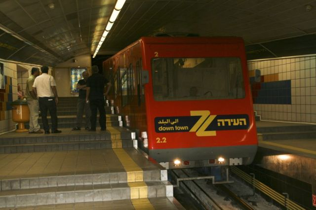 For more pictures and videos of Israel, please visit here. The Carmelit, Israel's only subway